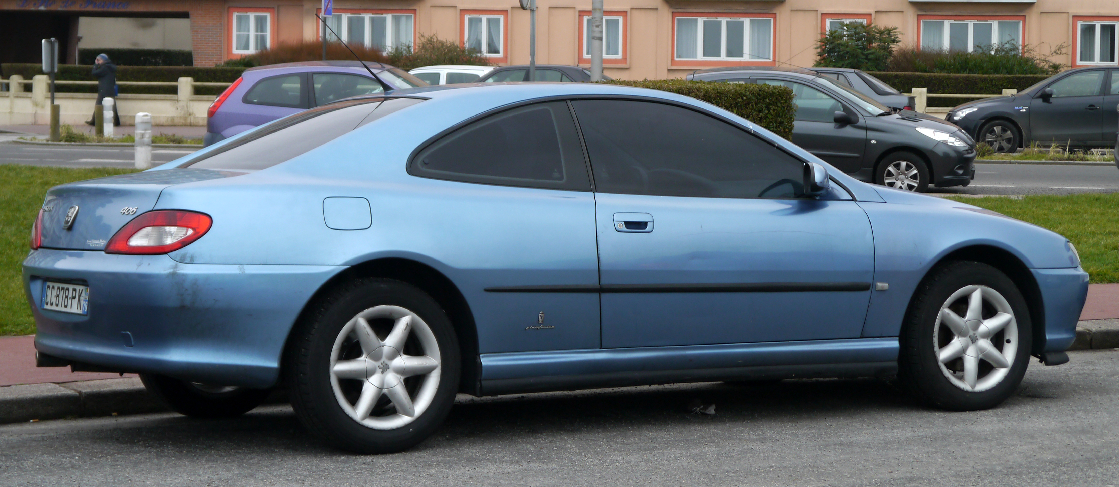 Peugeot 406 Coupé - designed and manufactured by Italian design studio Pininfarina.